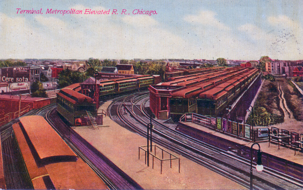 Logan Square station, c 1900s to 1910s